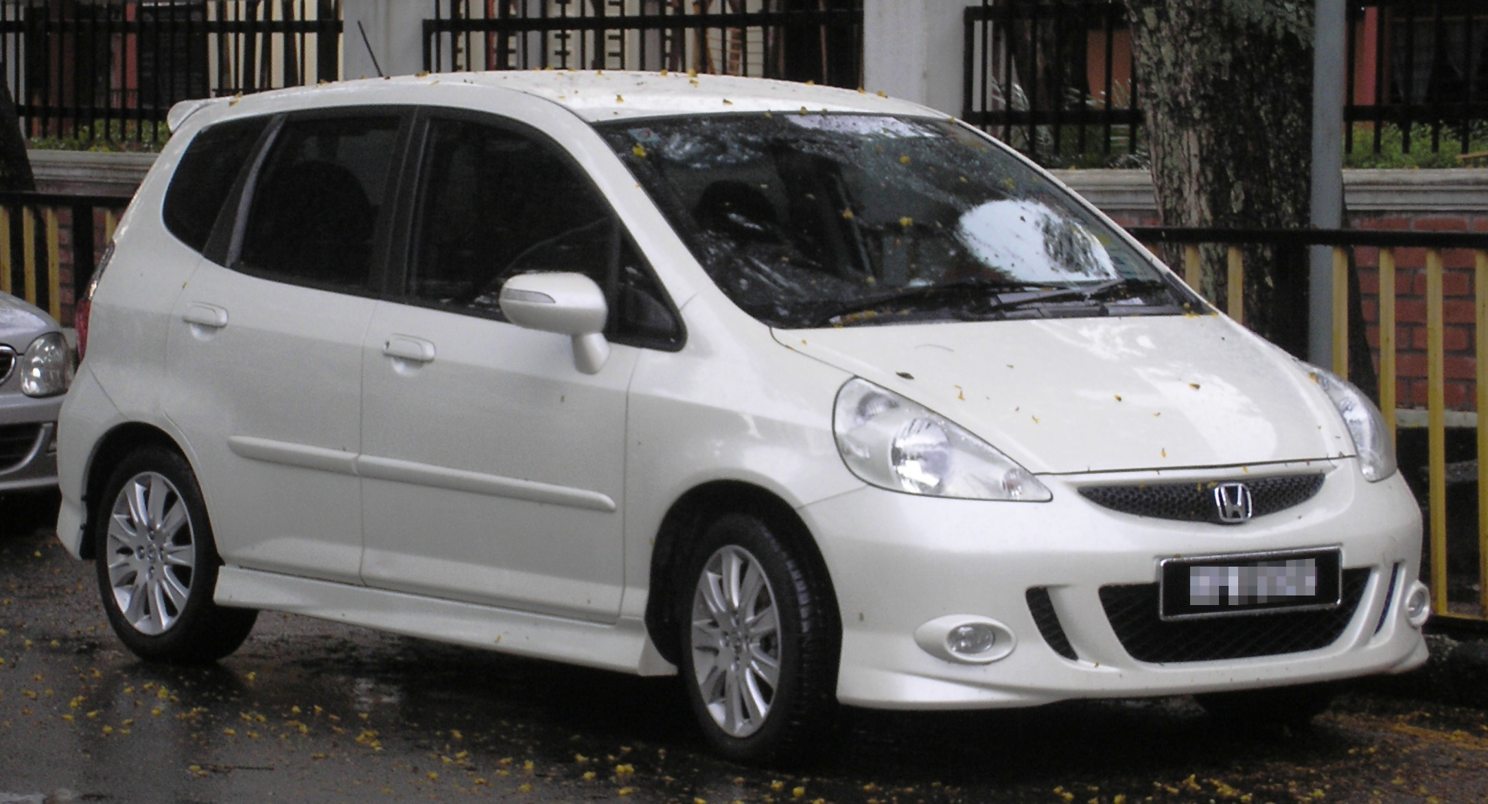 Front-side shot of an second generation, first facelift Honda Jazz (based on the Japanese Honda Fit), in Bukit Nanas, Kuala Lumpur, Malaysia.